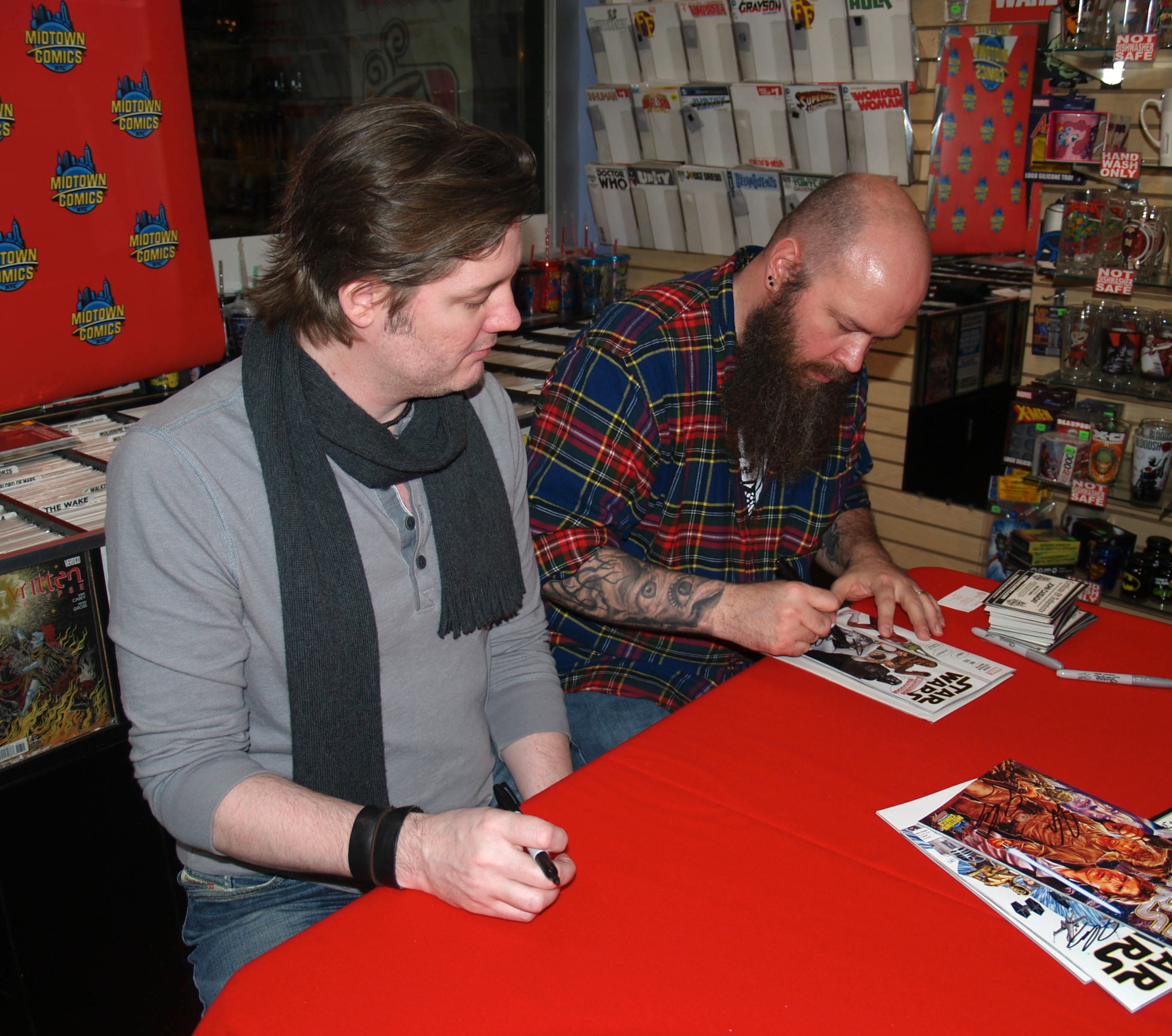 Comics creators John Cassaday and Jason Aaron at a January 16, 2015 signing for Star Wars #1 at Midtown Comics Downtown in Manhattan. The publication of the book represented the first Star Wars comic to be published by Marvel Comics since 1987, following the acquisition of Marvel by Disney in 2009. This photo was created by Luigi Novi. It is not in the public domain, and use of this file outside of the licensing terms is a copyright violation.